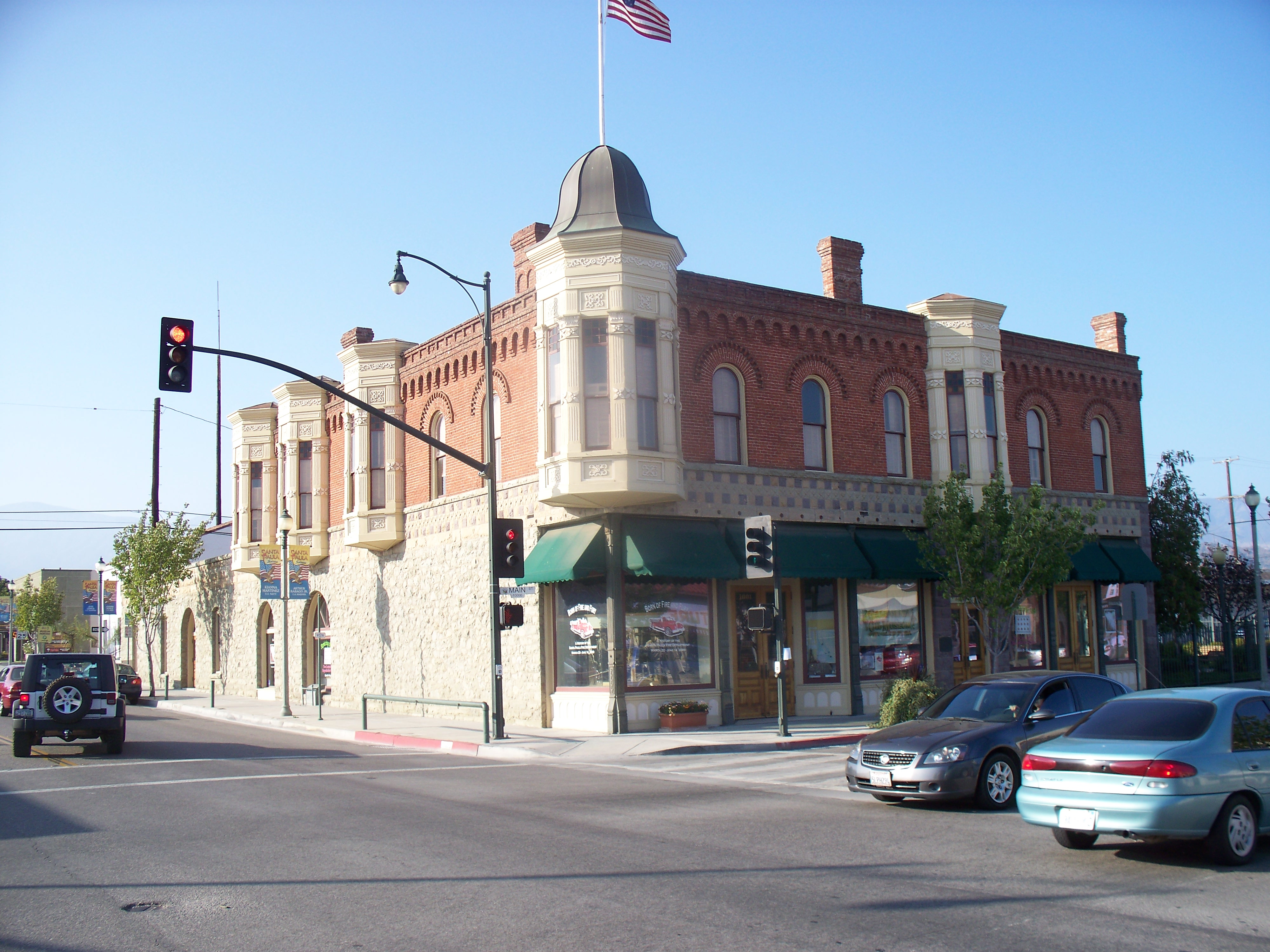 The Union Oil Company Building — the birthplace (on October 17, 1890) and original headquarters of the Union Oil Company of California. Located in Santa Paula, Ventura County, Southern California. The 1898 building now houses a local history and Union 76 Petroleum museum.